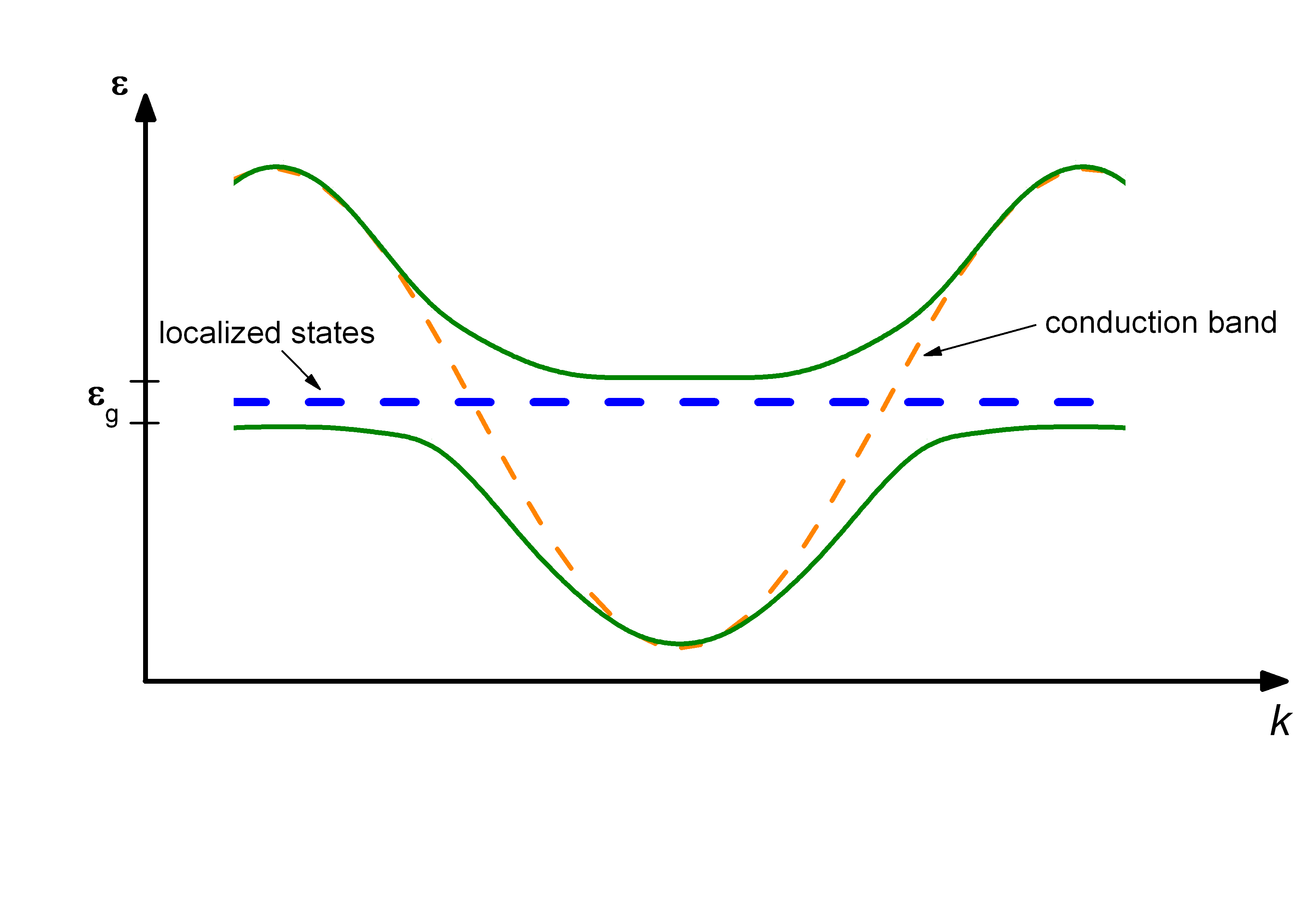 Hybridization of conduction band and localized states leads to an energy gap (hybridization gap)